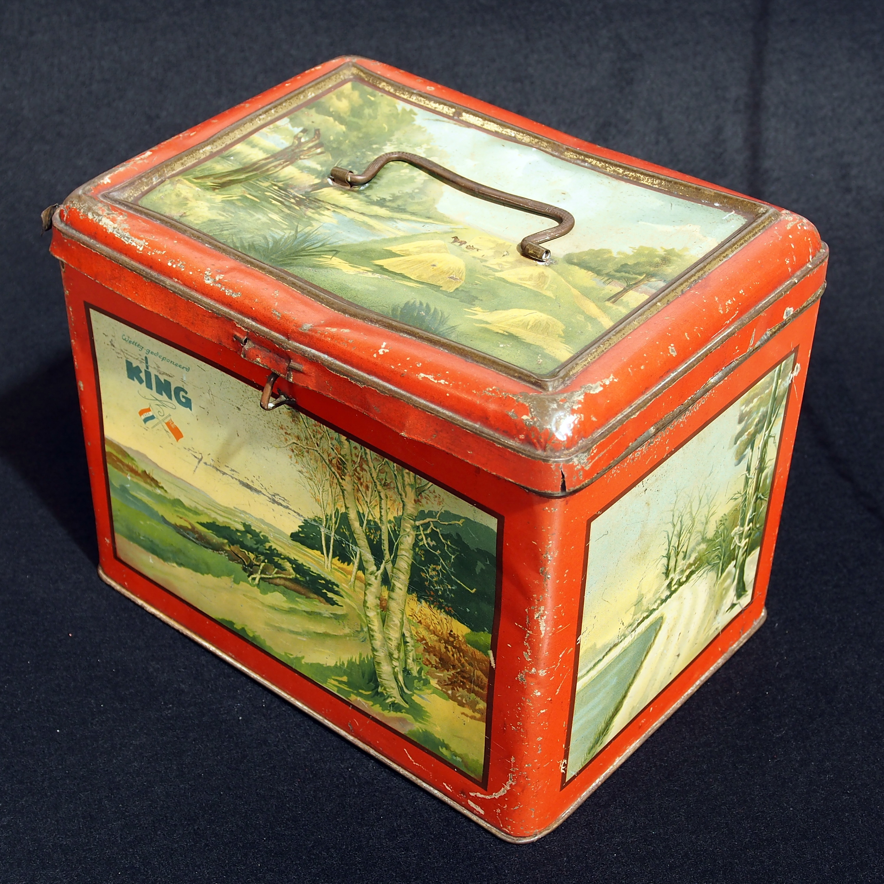 Very old Dutch product that is not produced and/or not sold any more.